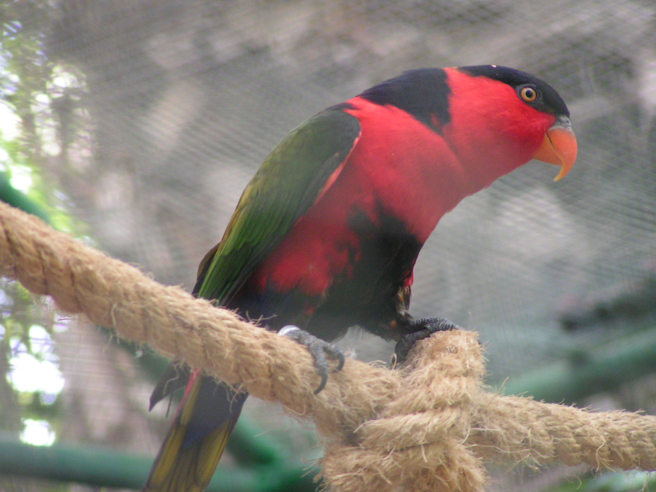 Lorius lory at the Oasis zoopark, La Lajita, Fuerteventura, Spain